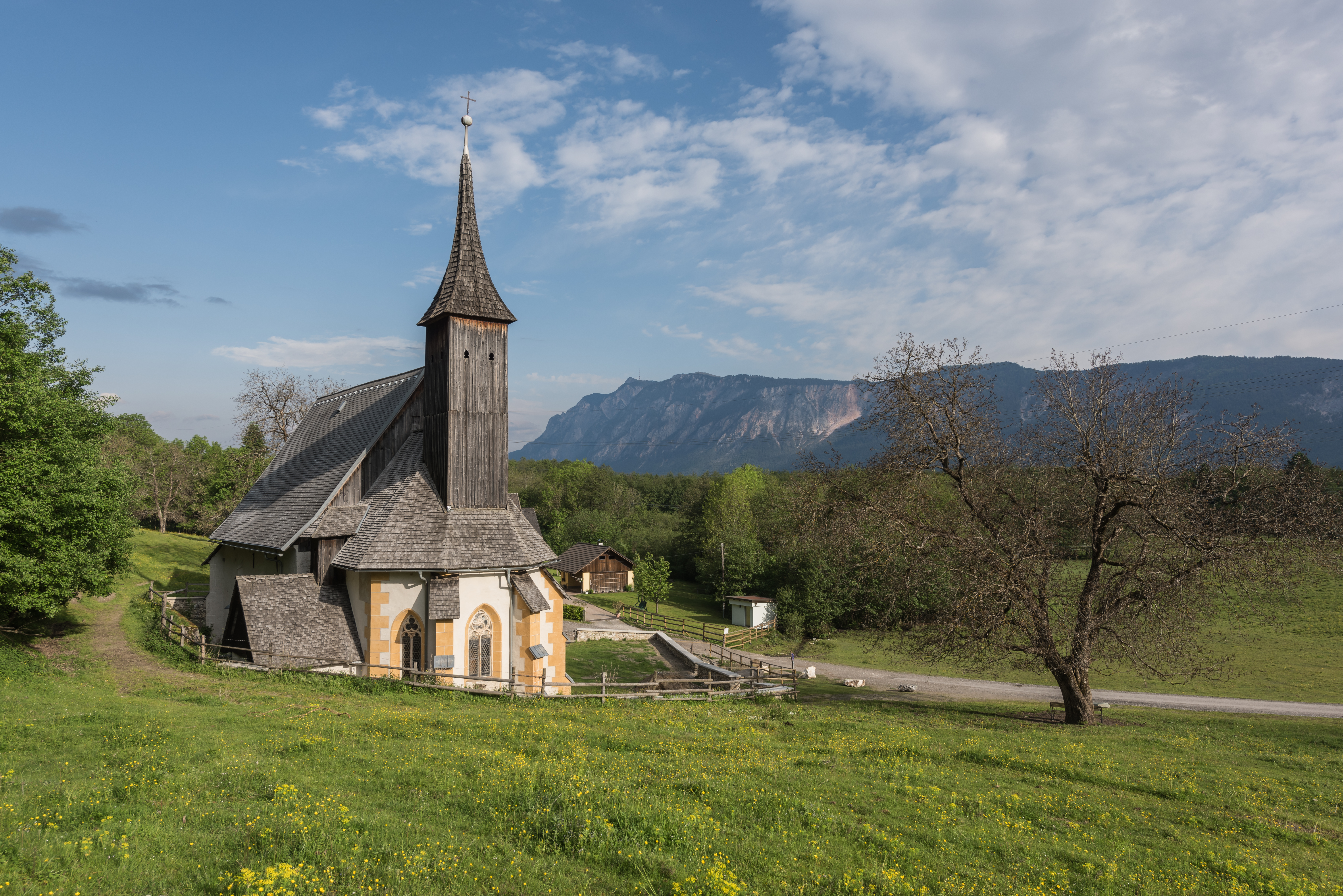 Pilgrimage church Maria Siebenbrünn in Radendorf, market town Arnoldstein, district Villach Land, Carinthia, Austria, EU